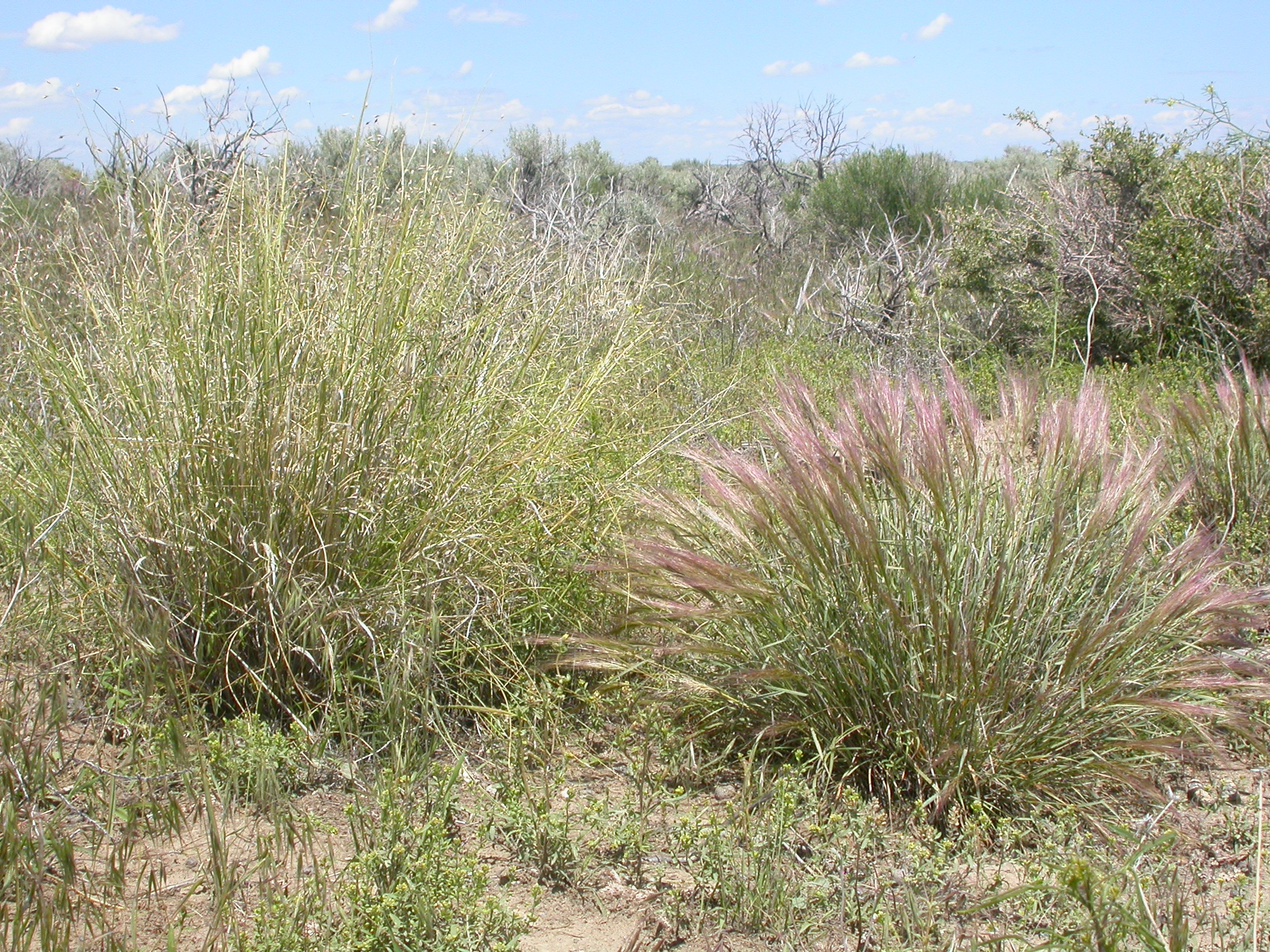 two common perennial bunchgrasses in the sagebrush steppe